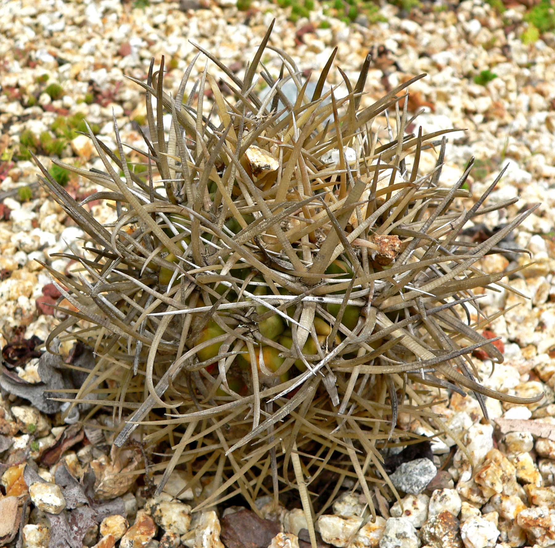 Photo of Ferocactus chrysacanthus at the San Francisco Botanical Garden